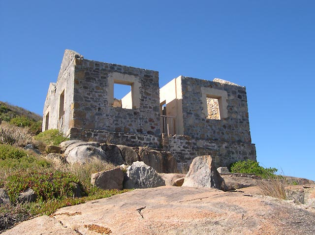 Ruins of Old Forts Lighthouse, King Point, Albany, Western Australia. Structure overlooks Ataturk Entrance. Photo by Andy Dolphin.